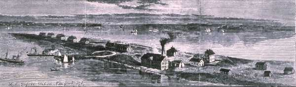 Picture of Goat Island created and published pre-1900.